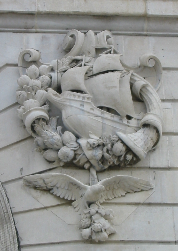 Nrf: Liverpool